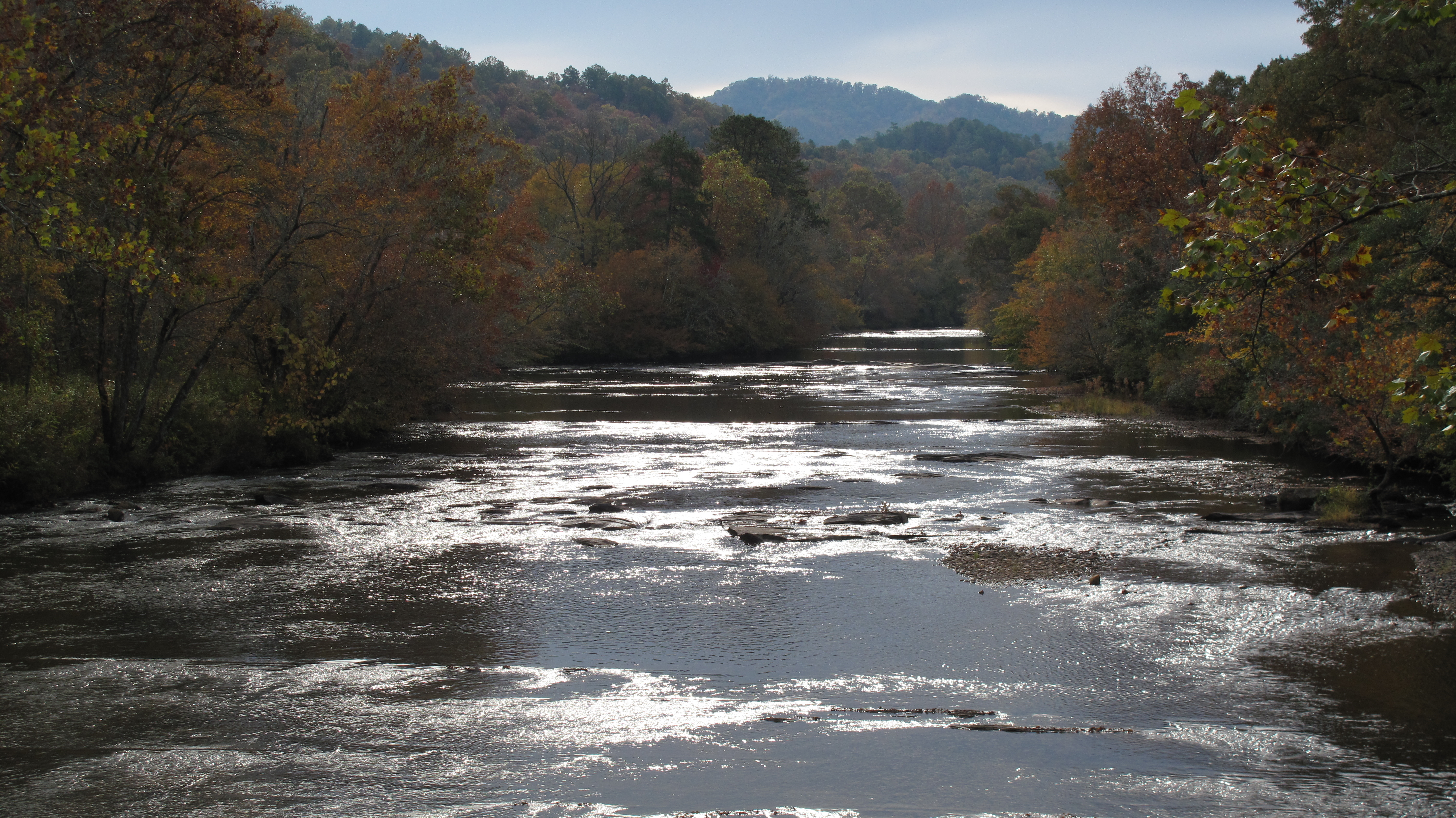 The Little Tennessee River is one of the most biologically important rivers in western North Carolina. The Carolina portion of the river is home to two federally protected mussels and one protected fish.